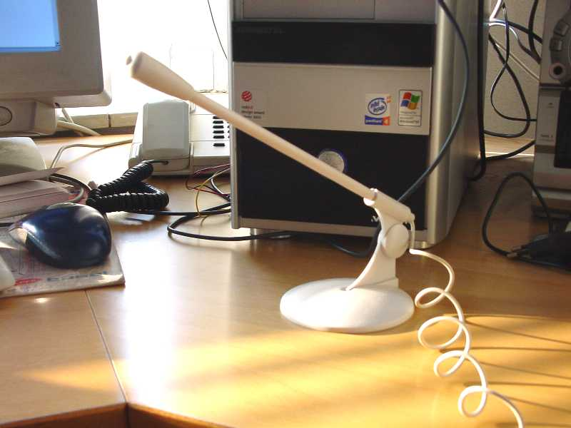 Een condensmicrofoon A condenser microphone